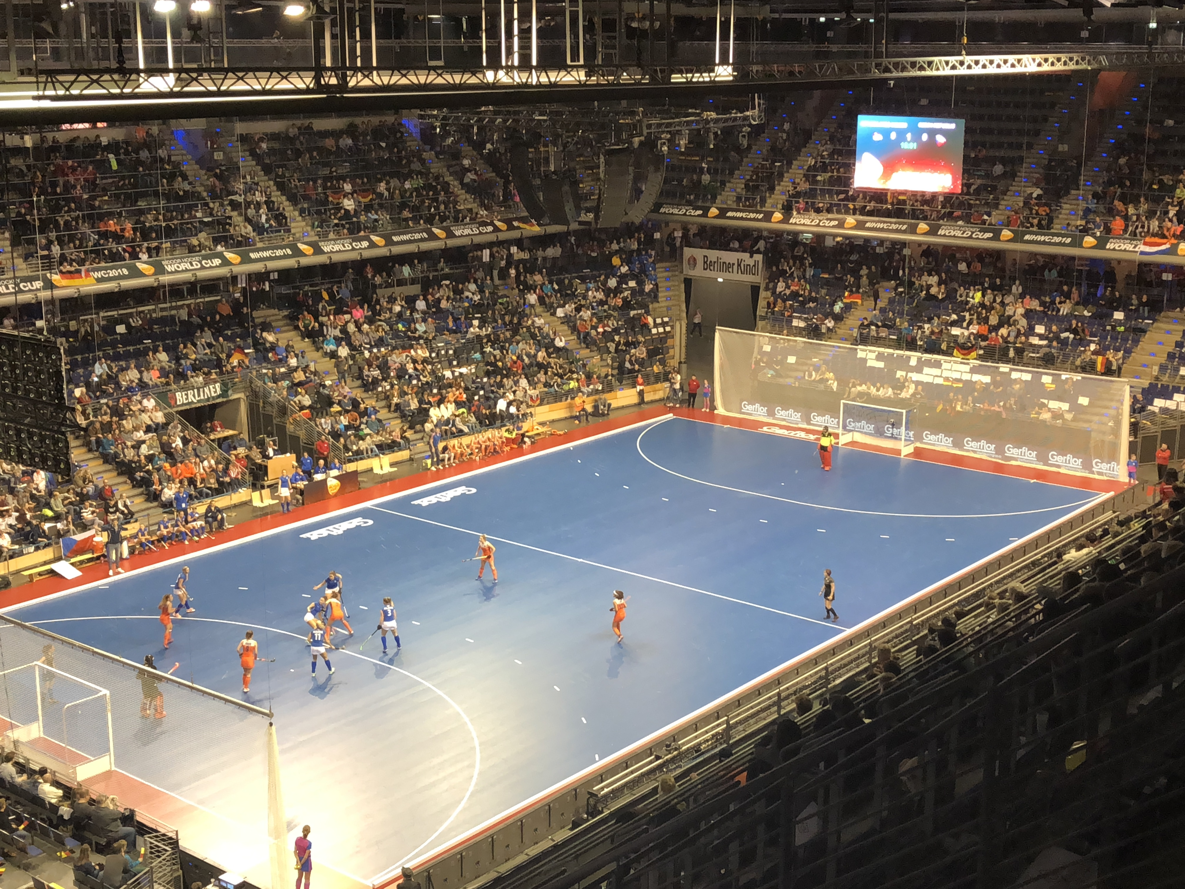 The 2018 Indoor Hockey World Cup was the fifth edition of this tournament and played from 7 to 11 February 2018 in Berlin, Max-Schmeling-Halle.